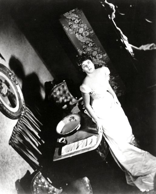 Scene from the 1944 movie Gaslight with Ingrid Bergman